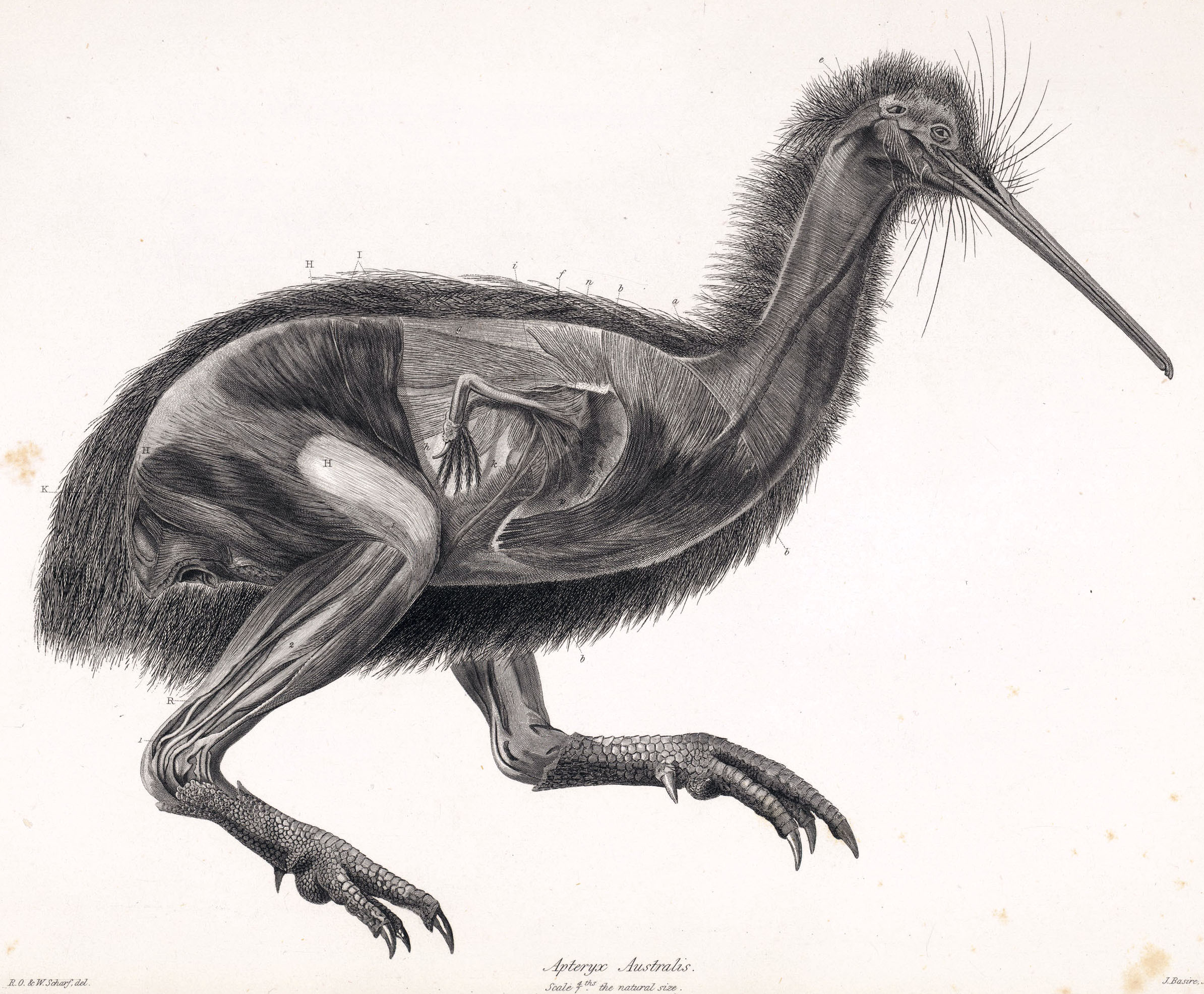 Side view of the superficial muscles of the Apteryx australis. From Memoirs on the Extinct Wingless Birds of New Zealand, with an Appendix on those of England, Australia, Newfoundland, Mauritius, and Rodriguez by Sir Richard Owen